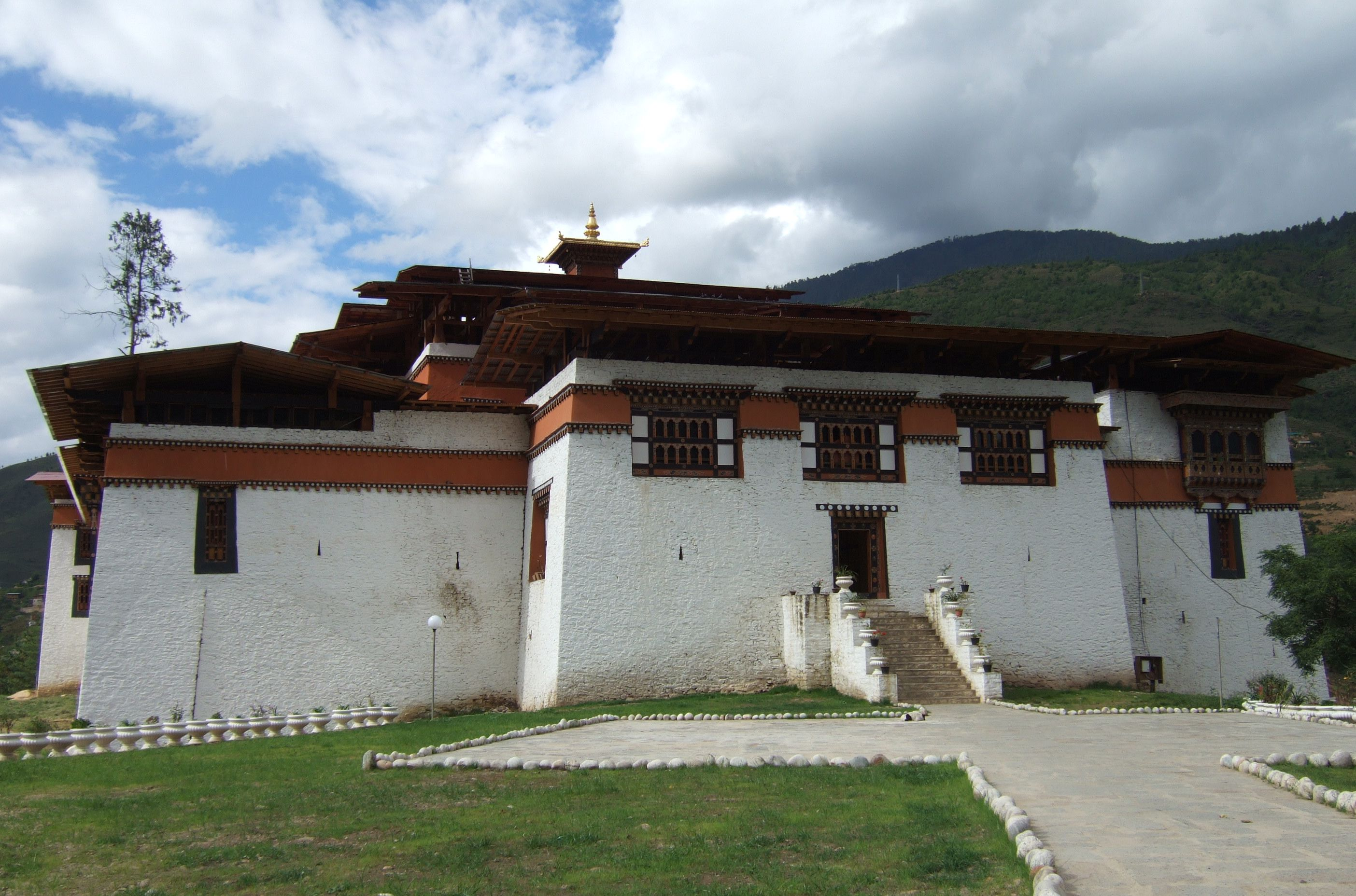 Simtoka Dzong, Thimphu